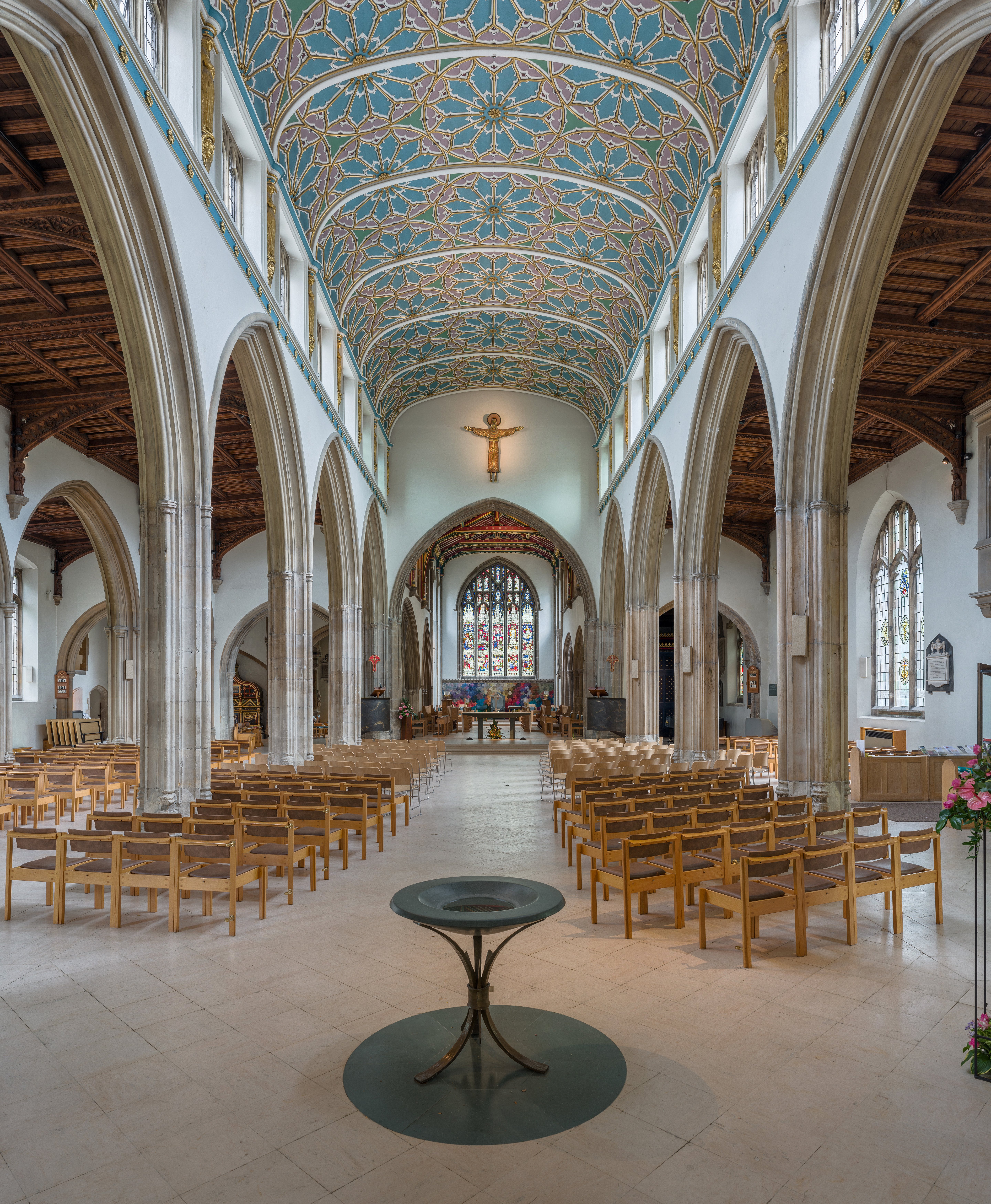 The nave of Chelmsford Cathedral in Essex, England, viewed from the west.